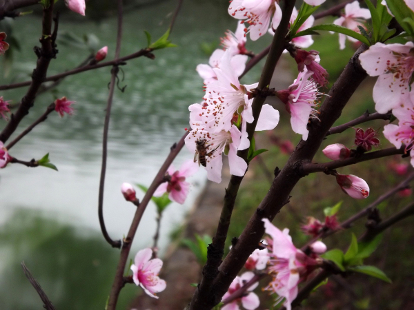 I am a plant with arborous stems. My leaves, long 7-15 centimeters and wide 2-3.5 centimeters, are in oblong, oval or obovate lanceolate shapes, with acuminate apex and broadly cuneate base.